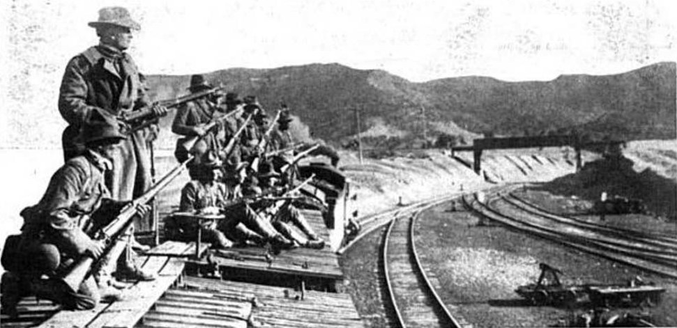 Colorado National Guard troops arrive in the strike district during the Ludlow strike